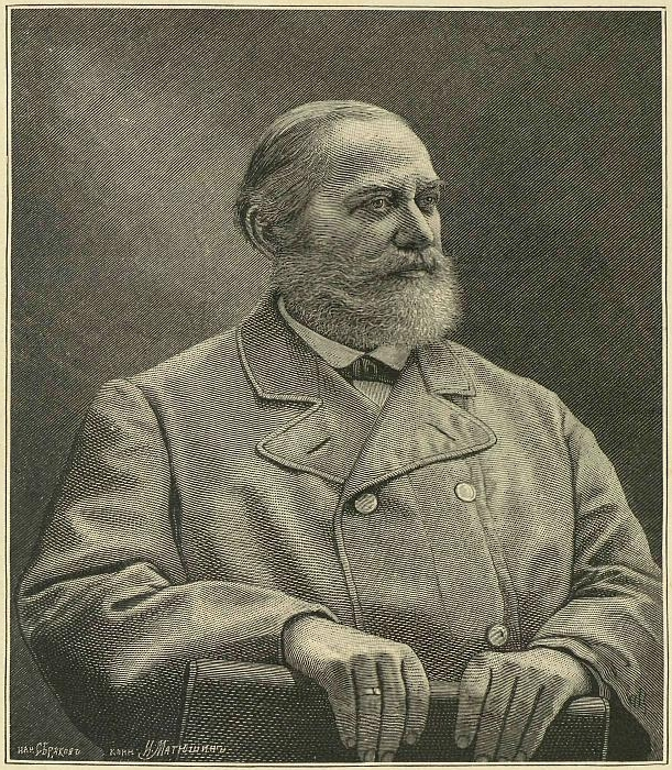 Sergey Mikhaylovich Solovyov